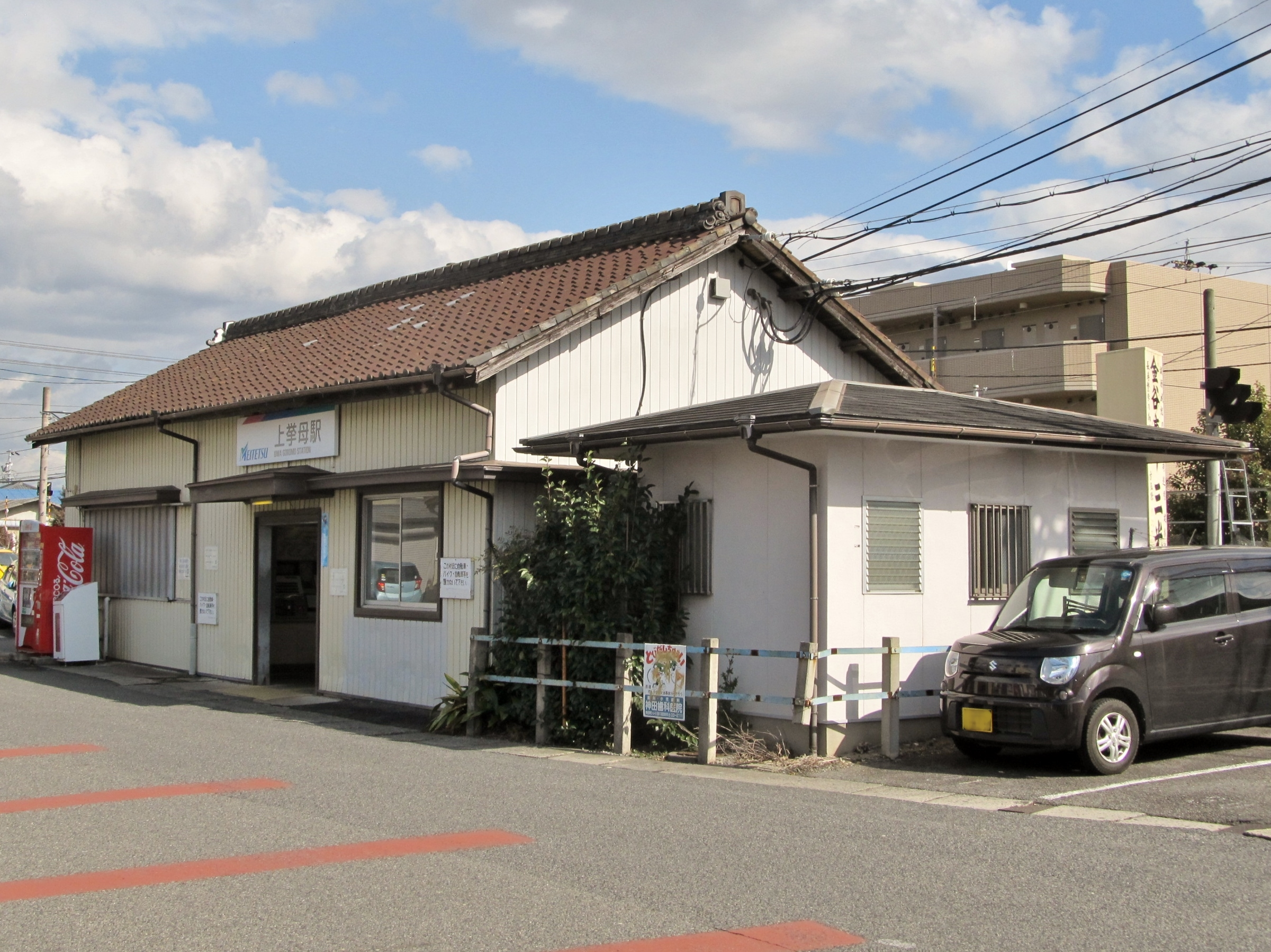 Nagoya Railroad Mikawa Line Uwa Goromo Station Building